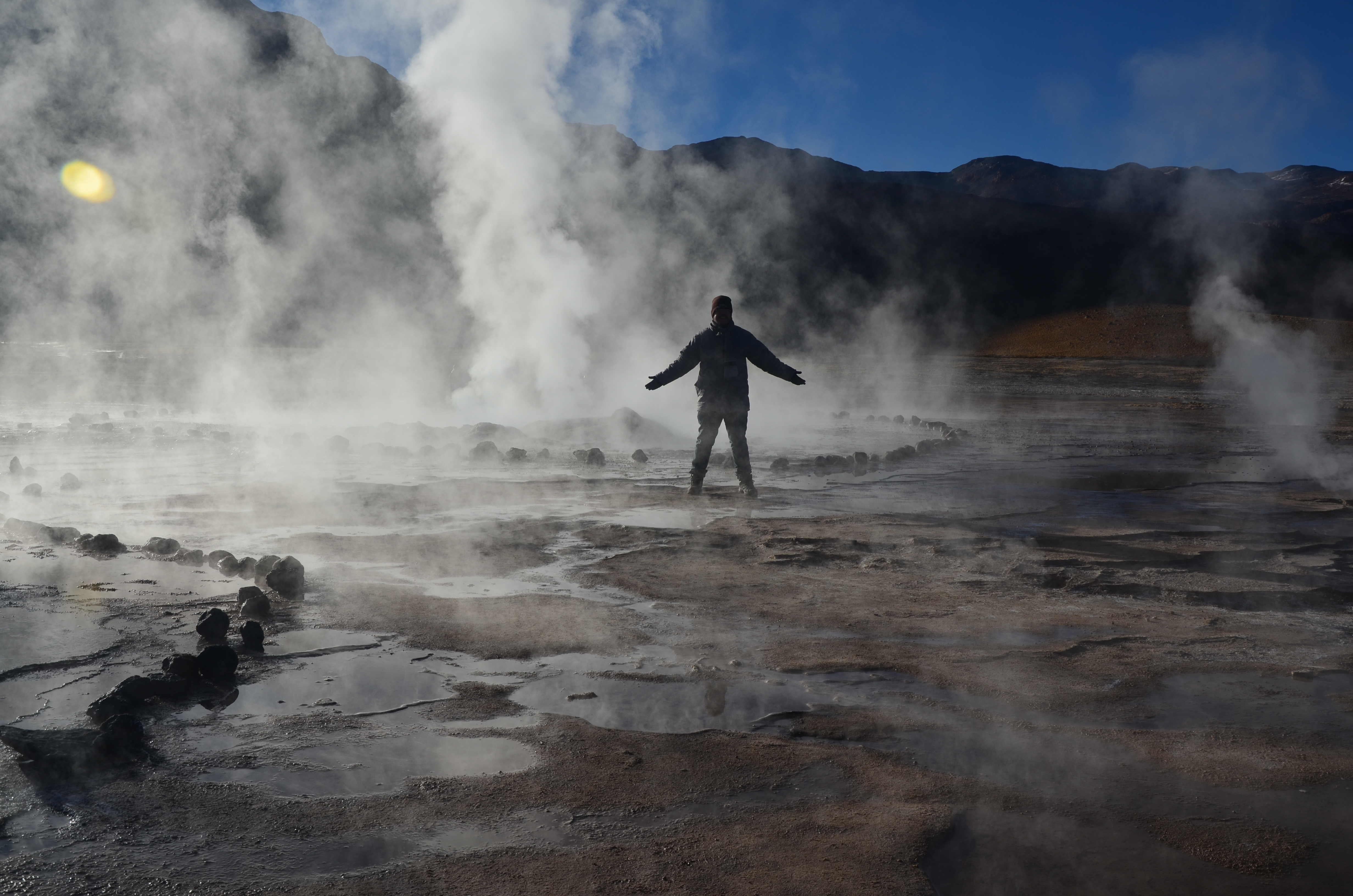 Geysers del Tatio, Atacama Desert, Chile